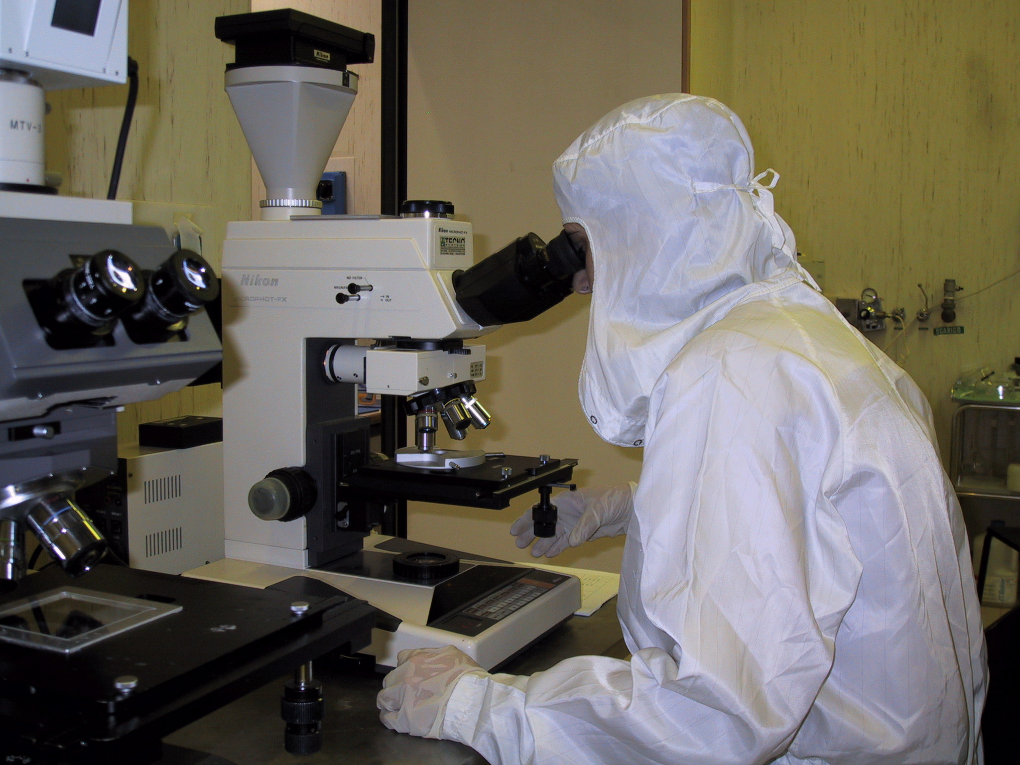 Operator in cleanroom, at the microscope. Author: MgCastellano